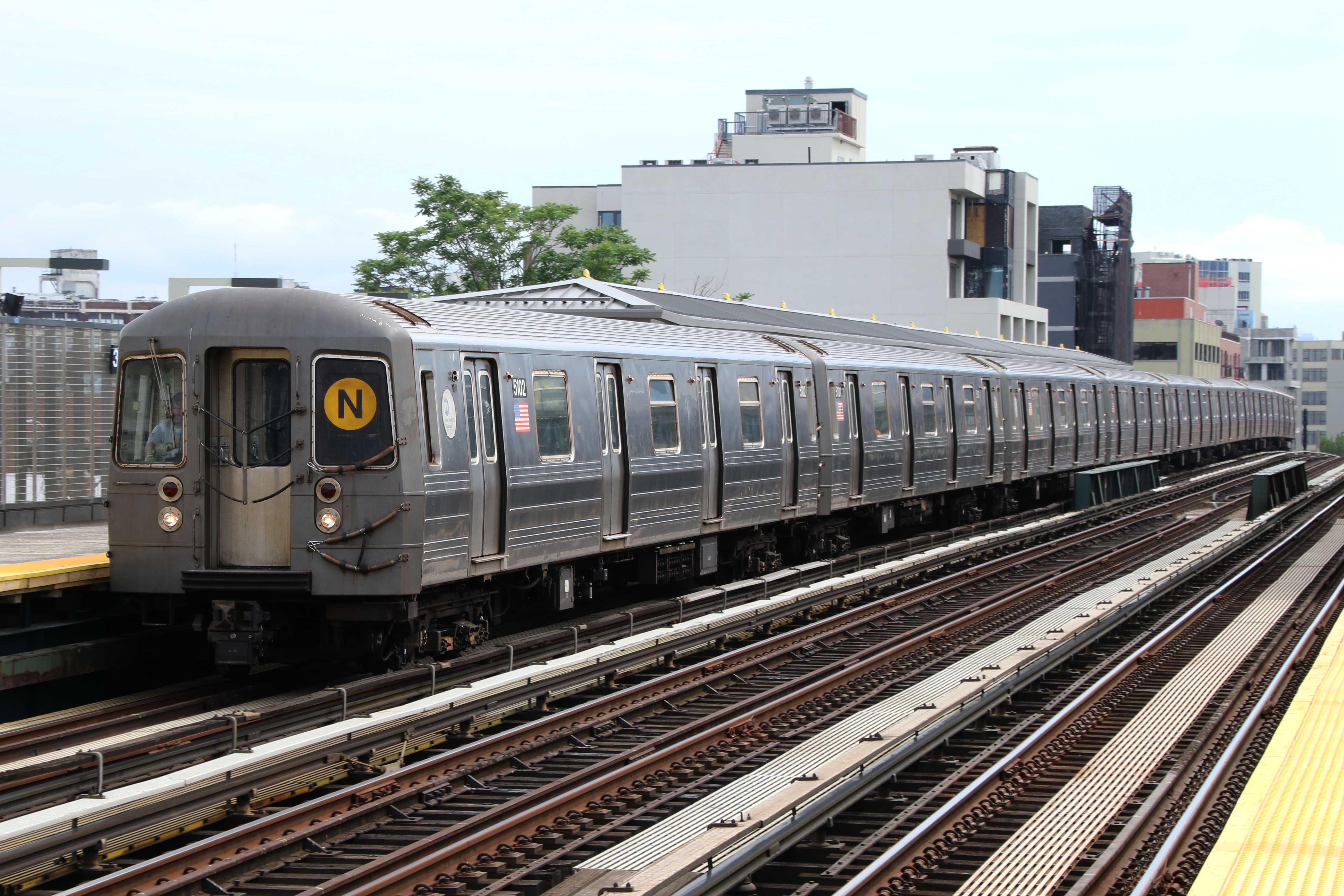 Astoria-bound MTA NYC Subway N train of Kawasaki Heavy Industries R68A cars arriving at 36th Ave.